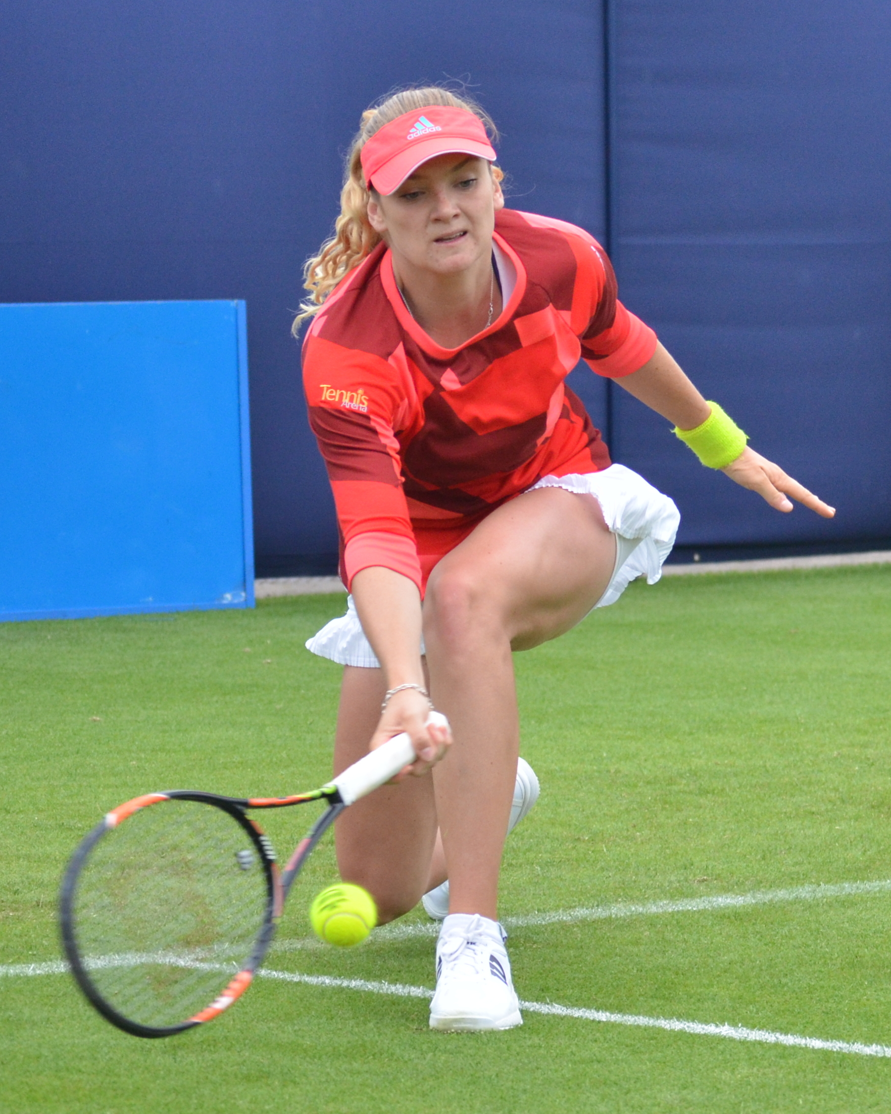 Tereza Martincová at the 2016 Eastbourne $50k tournament